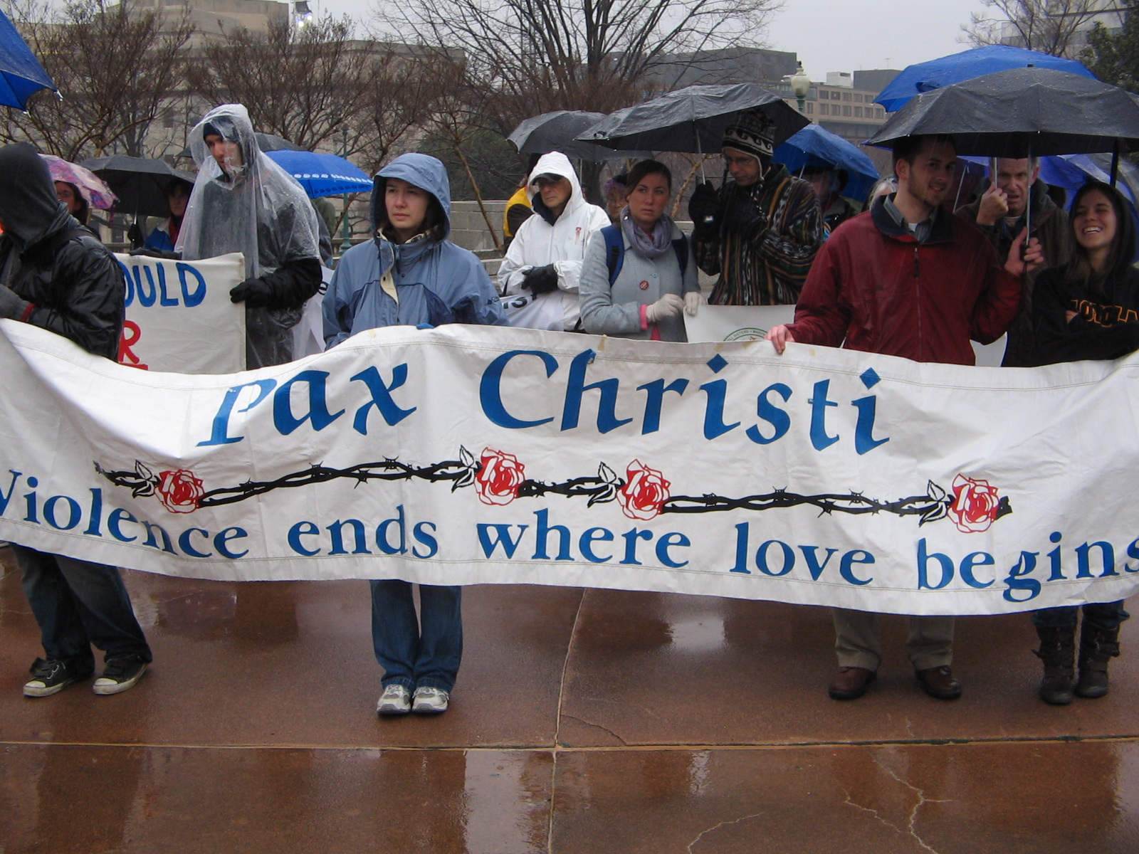 A group of Pax Christi members protesting the U.S. invasion of Iraq in March, 2008.